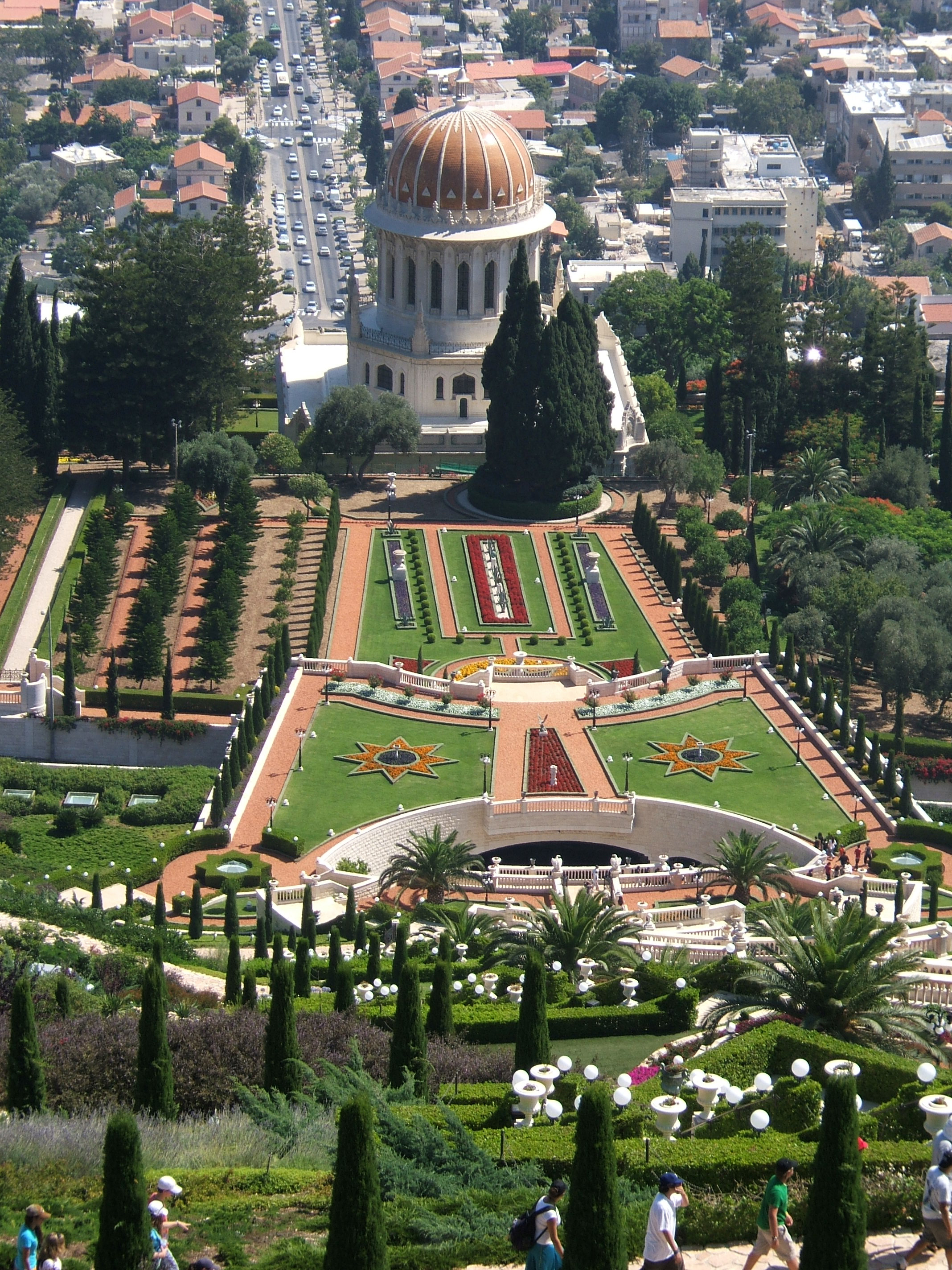 Overlooking Bahai gardens in Haifa, Israel. Photo taken in Israel 2005 by myself (Bantosh).